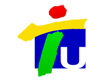 This hand drawn San Juan Metro logo is of very low resolution and is being used non-commercially and for informative purpose only.